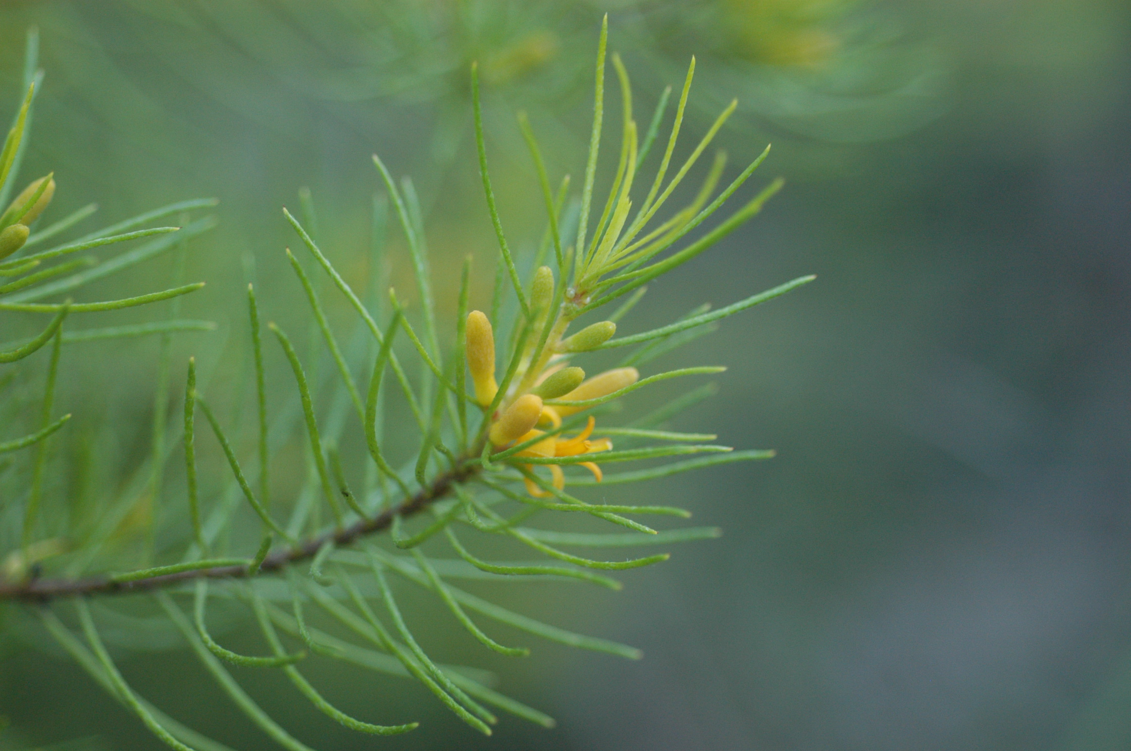 North Rothbury Persoonia (Persoonia pauciflora). This rare plant species occurs in the Threatened Ecological Community, Lower Hunter Spotted Gum - Ironbark Woodland.